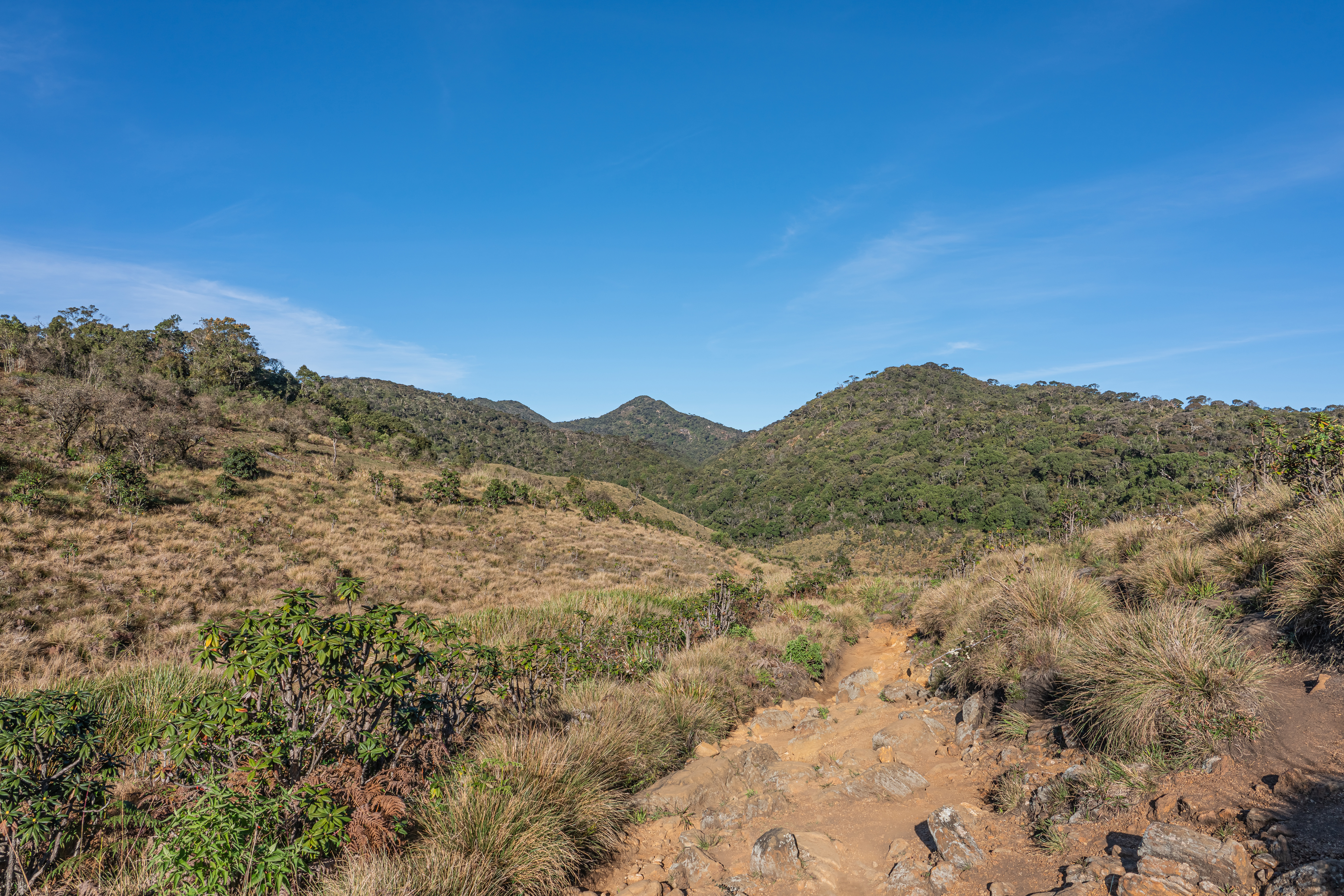 Landscape in the Horton Plains National Park, Sri Lanka